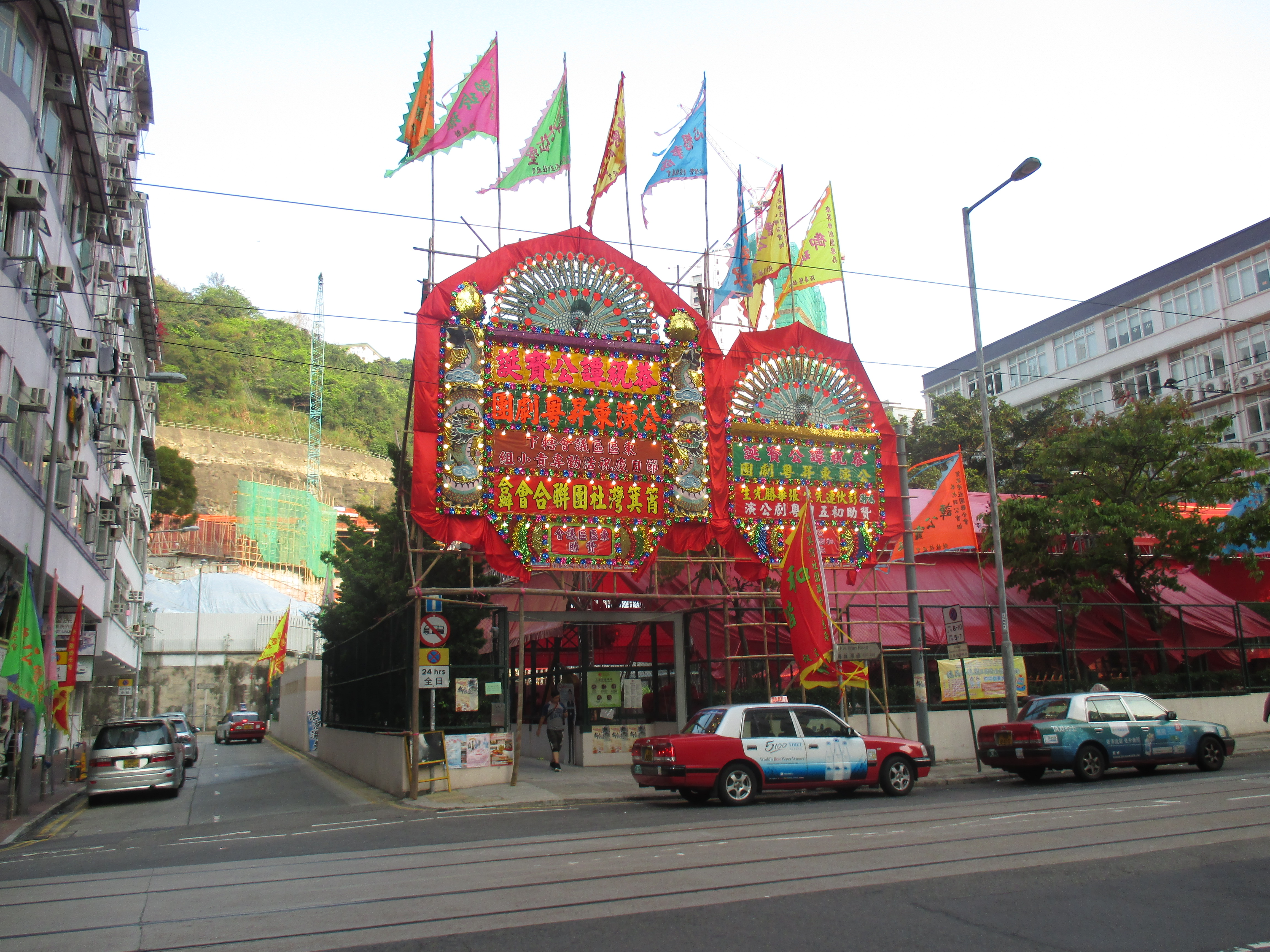 Factory Street Playground, Shau Kei Wan, Hong Kong